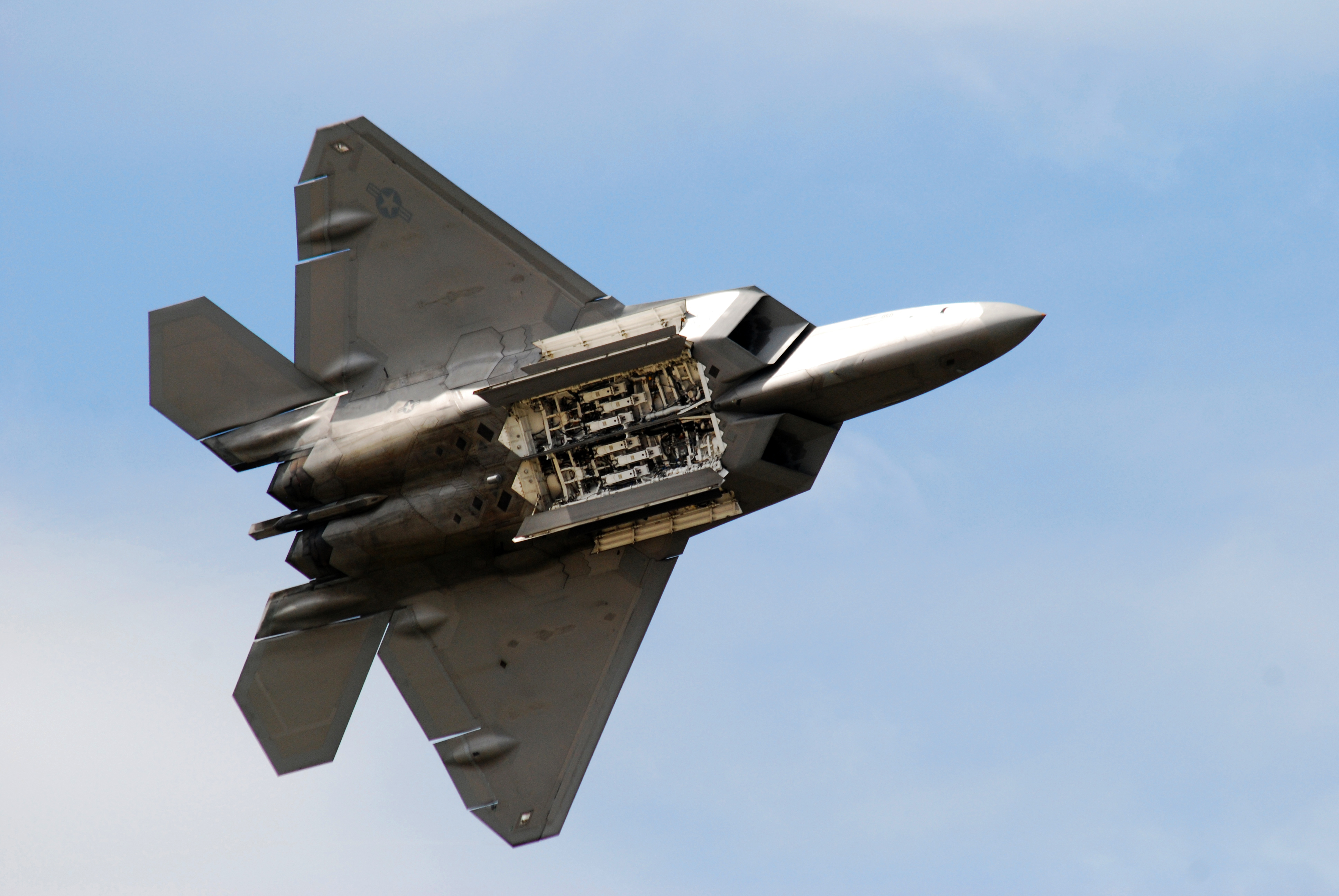 An F-22 Raptor shows the crowd how it remains stealthy while carrying weapons in flight by cycling it's weapons bay doors during the 50th Anniversary Naval Air Station Oceana Air Show. The three-day event marked 50 years of air shows at NAS Oceana and included performances by the Navy's flight demonstration team the Blue Angels and the Navy's parachute jump team, the Leap Frogs, as well as a variety of aerial demonstrations and static displays of military and civilian aircraft.